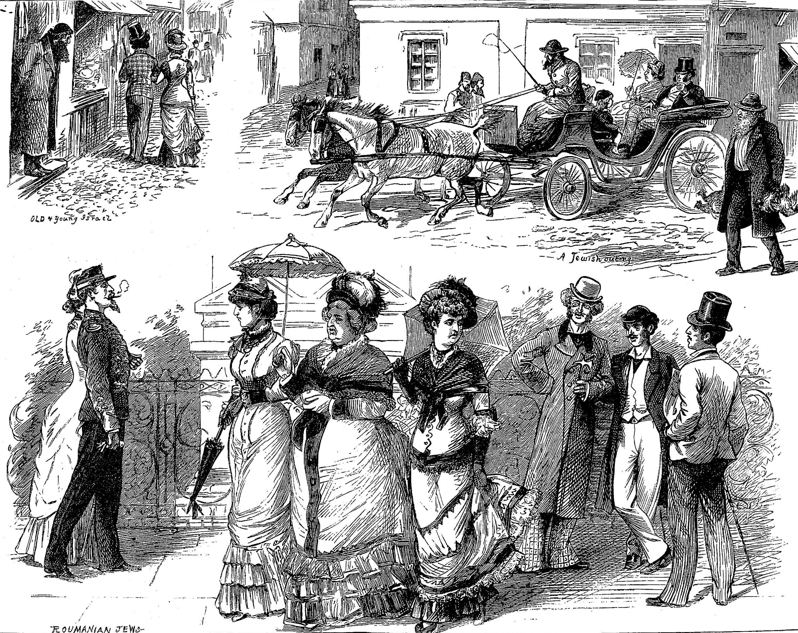 The Jewish Question in Roumania - Character sketches in Galatz